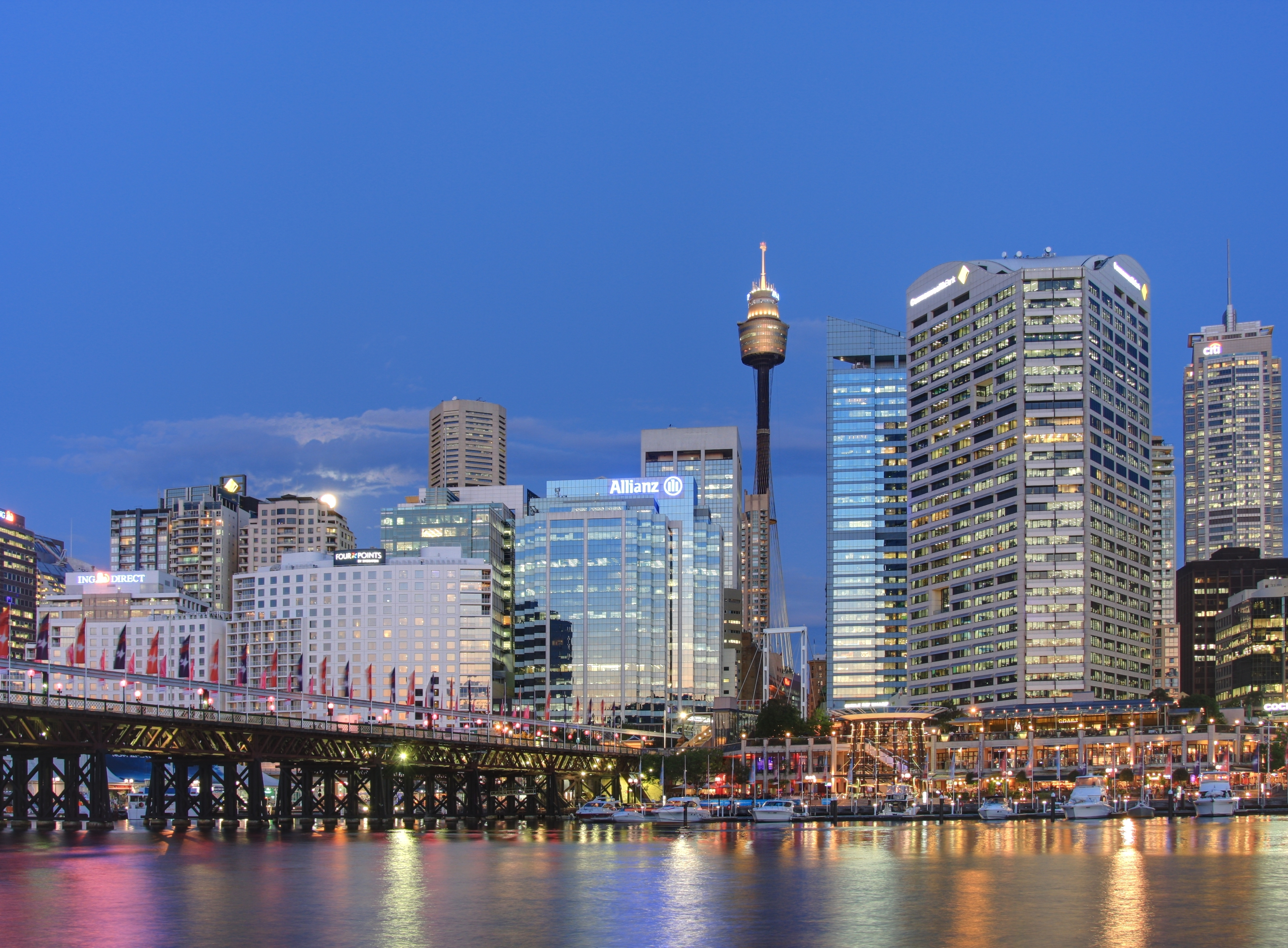 Sydney from Darling Harbour